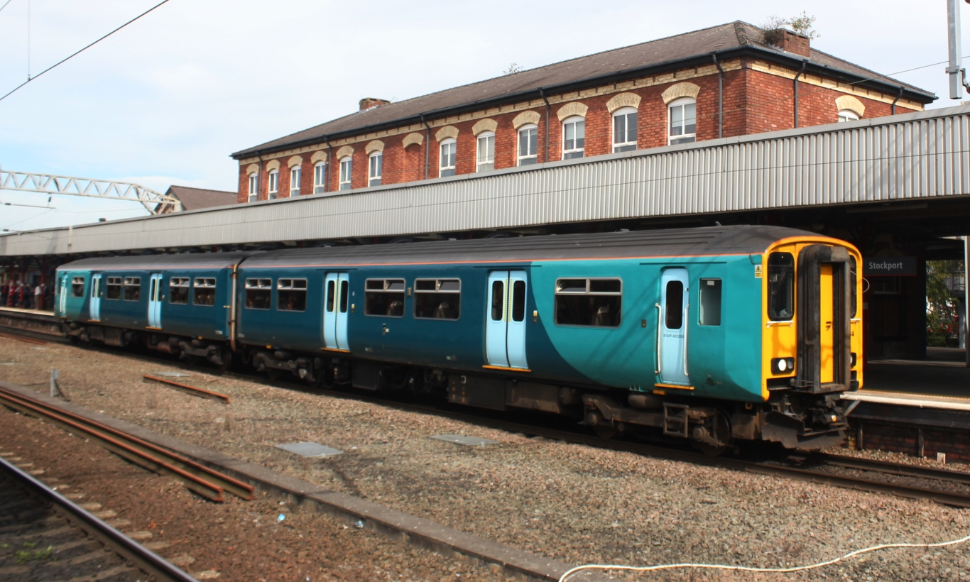 Transport for Wales' 150284 calls at Stockport with a south Wales-bound service from Manchester.